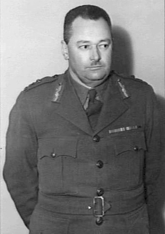 AWM description: MELBOURNE, VIC. 28 JULY 1945. MAJOR GENERAL C E M LLOYD, ADJUTANT GENERAL, BRANCH OF THE ADJUTANT GENERAL LAND HEADQUARTERS.